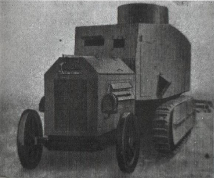 German heavy half-track armored car based on the Marienwagen II artillery tractor. 1918—1919